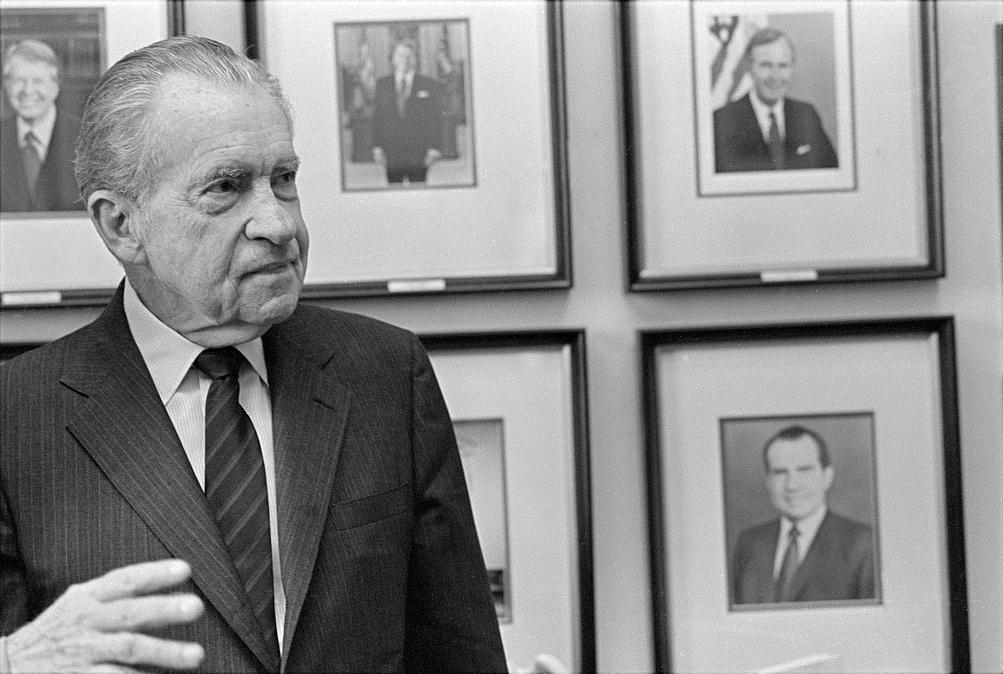 Former President Richard Nixon, head-and-shoulders portrait, facing right, standing in front of photographs of presidents in Representative William Broomfield's congressional office